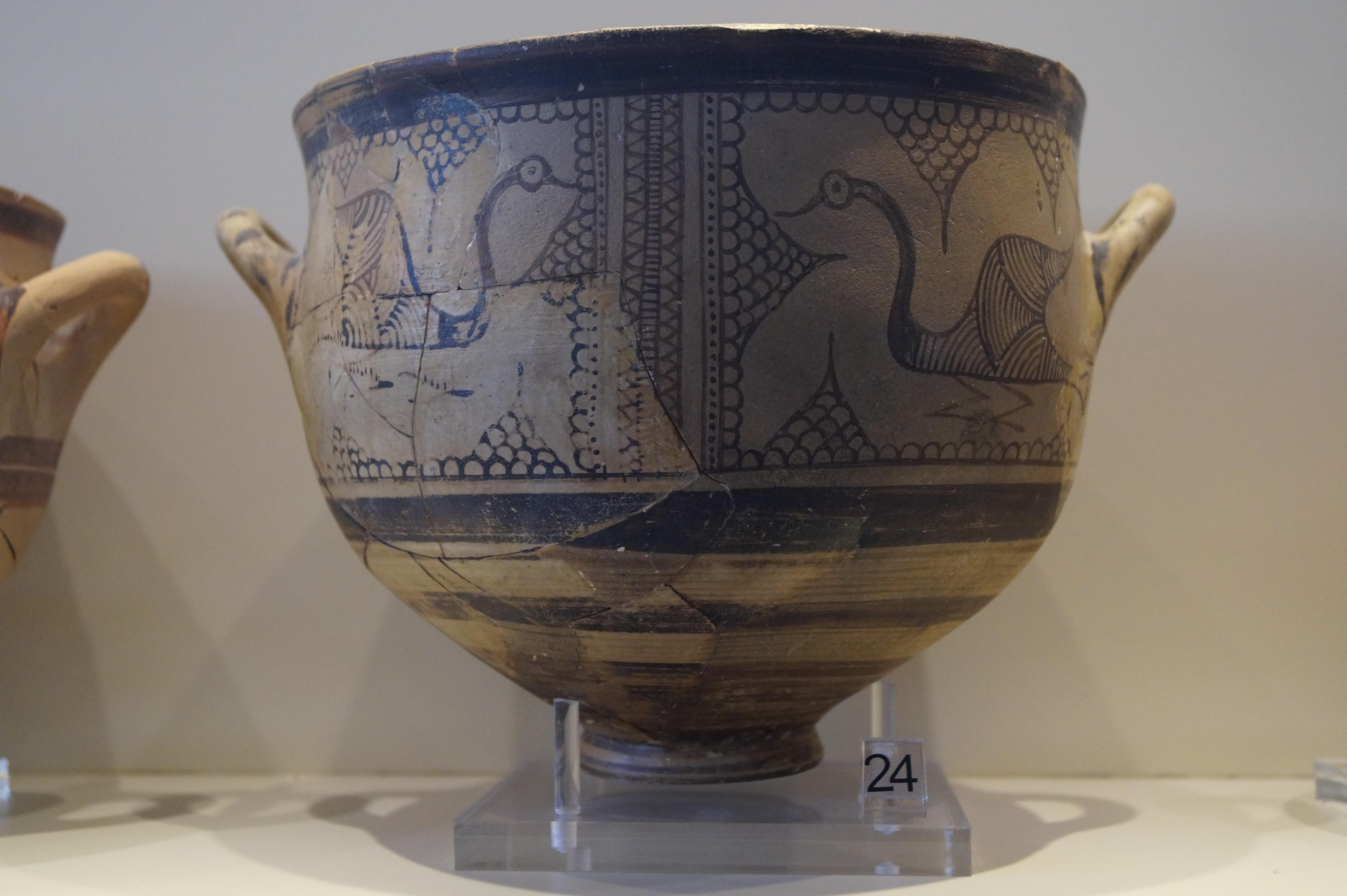 Archaeological Museum of Corinth, Greece: Late Helladic bowl from Korakou.